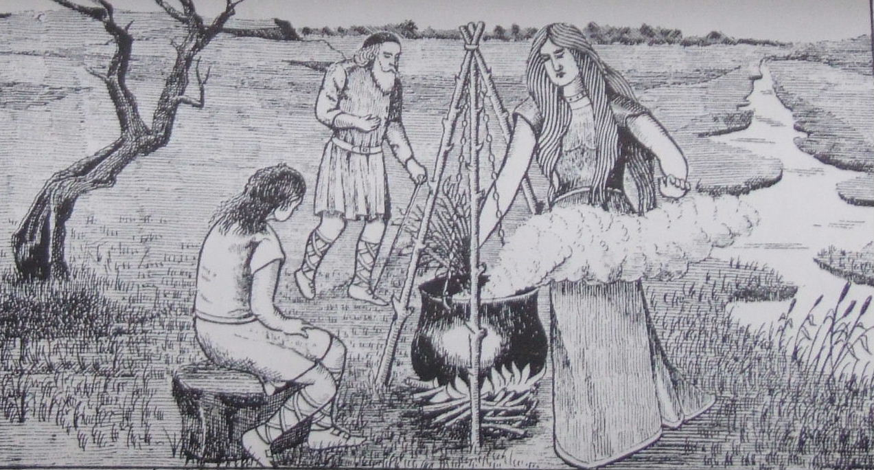 Print by J.E.C. Williams in the book 'Y Mabinogion', trans. J.M. Edwards (Wrexham, 1901).